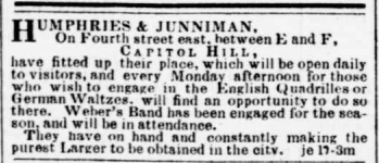 Humphries & Junniman Announcement of Opening - Washington Brewery Company - Washington, DC - Capitol Hill